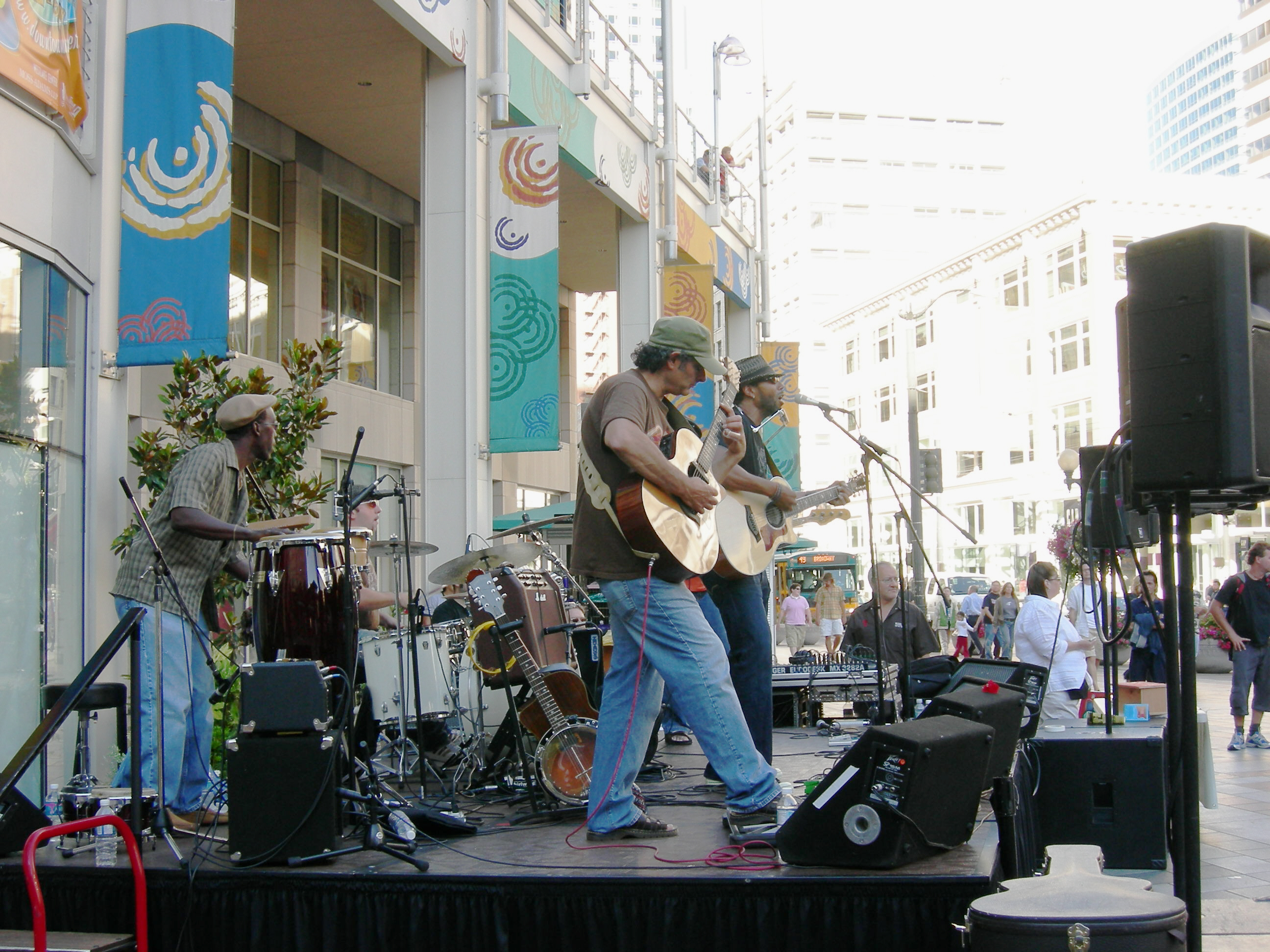 LeRoy Bell Band plays outdoors at Westlake Center, Seattle, Washington